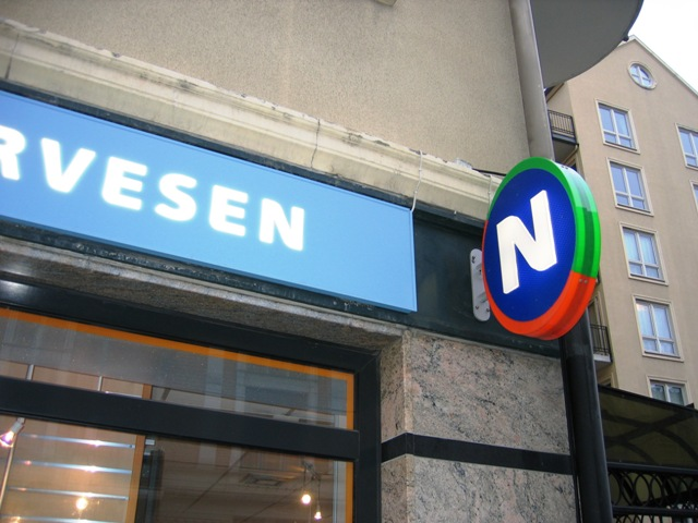 Narvesen, a kiosk company. Oslo, Norway